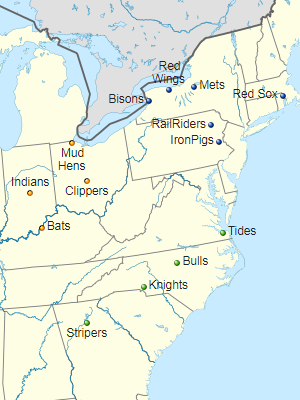 International League team locations for the 2019 season